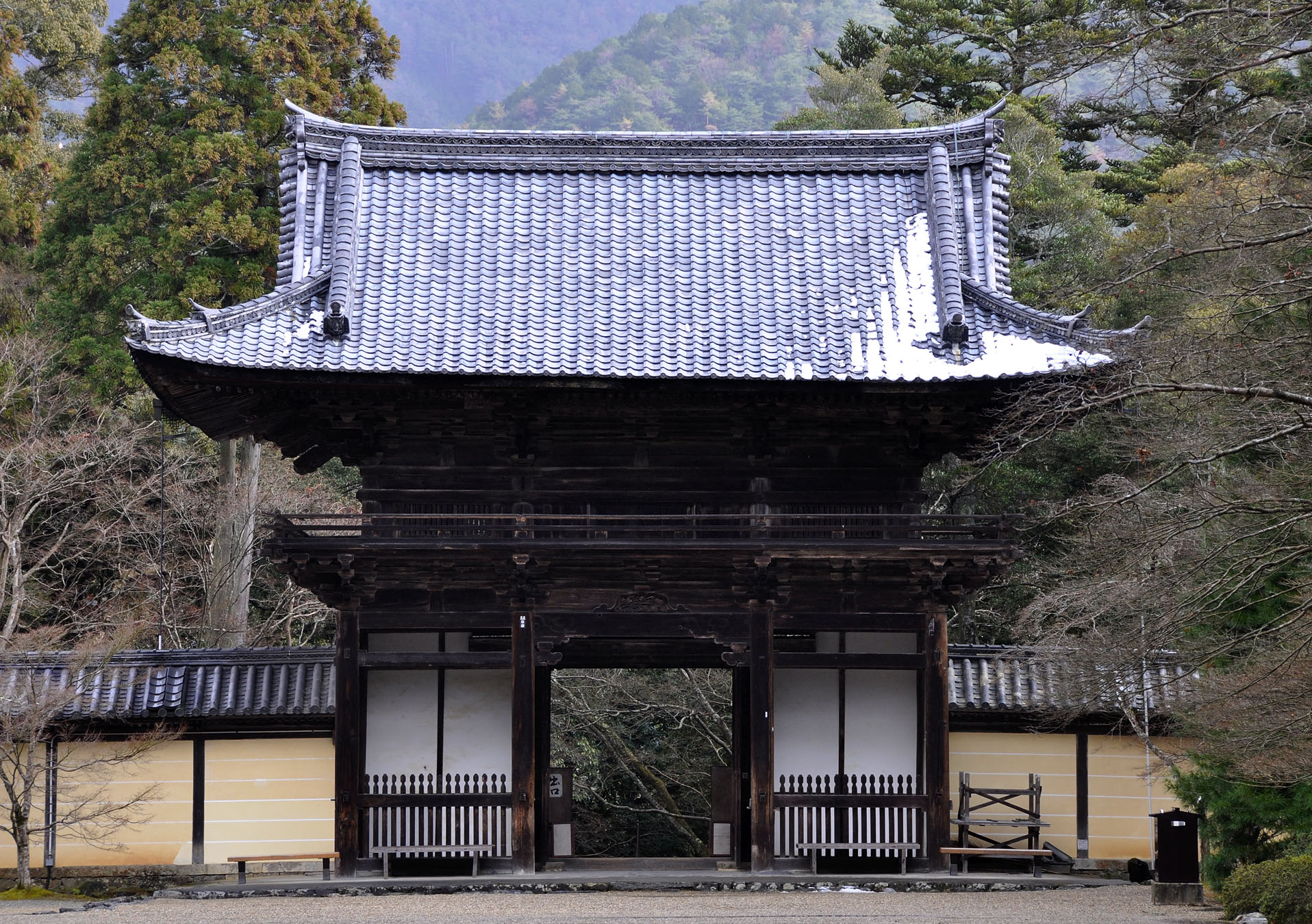 This photograph shows the gate (Rōmon) at Jingo-ji in Kyoto. View from within the temple precincts. 京都市にある高雄山寺神護寺の楼門。